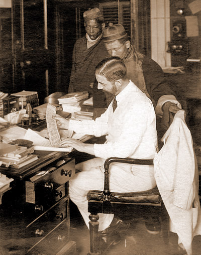 Dutch orientalist Johan van Manen in 1924